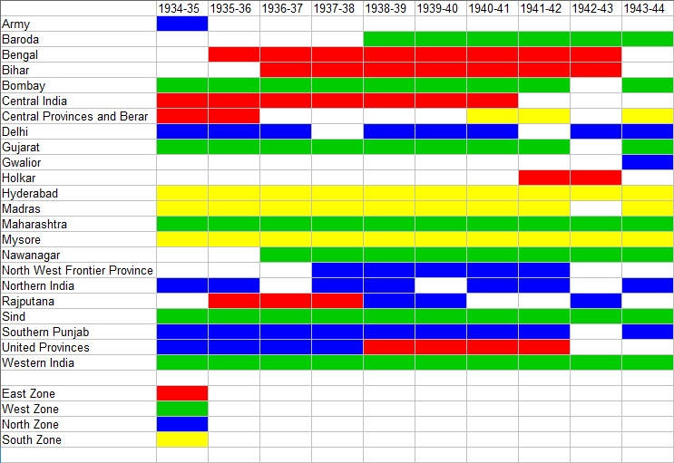 Ranji Trophy Teams 1934-35 to 1943-44